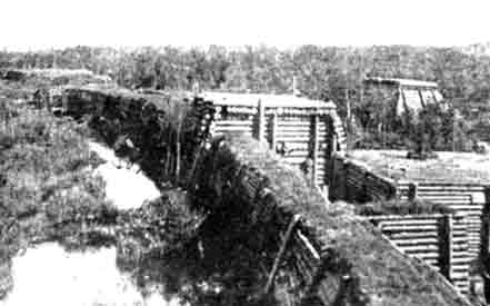 30 km. long german fortifications German Wall across the Tirelis swamp, during world war one. Riga front, Latvia.